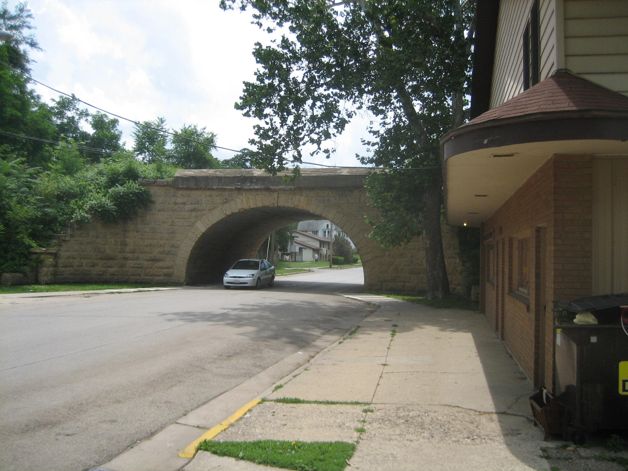 Illinois Central Stone Arch Railroad Bridges, bridge over Third Street (nicknamed "Little Sister" because of its lower clearance than the other two stone arch bridges in Dixon), Dixon, Illinois. U.S. National Register of Historic Places